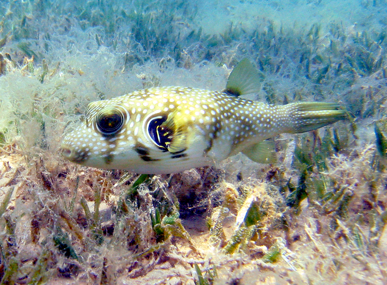 White spotted puffer (Arothron hispidus) photographed in Dahab, Egypt.